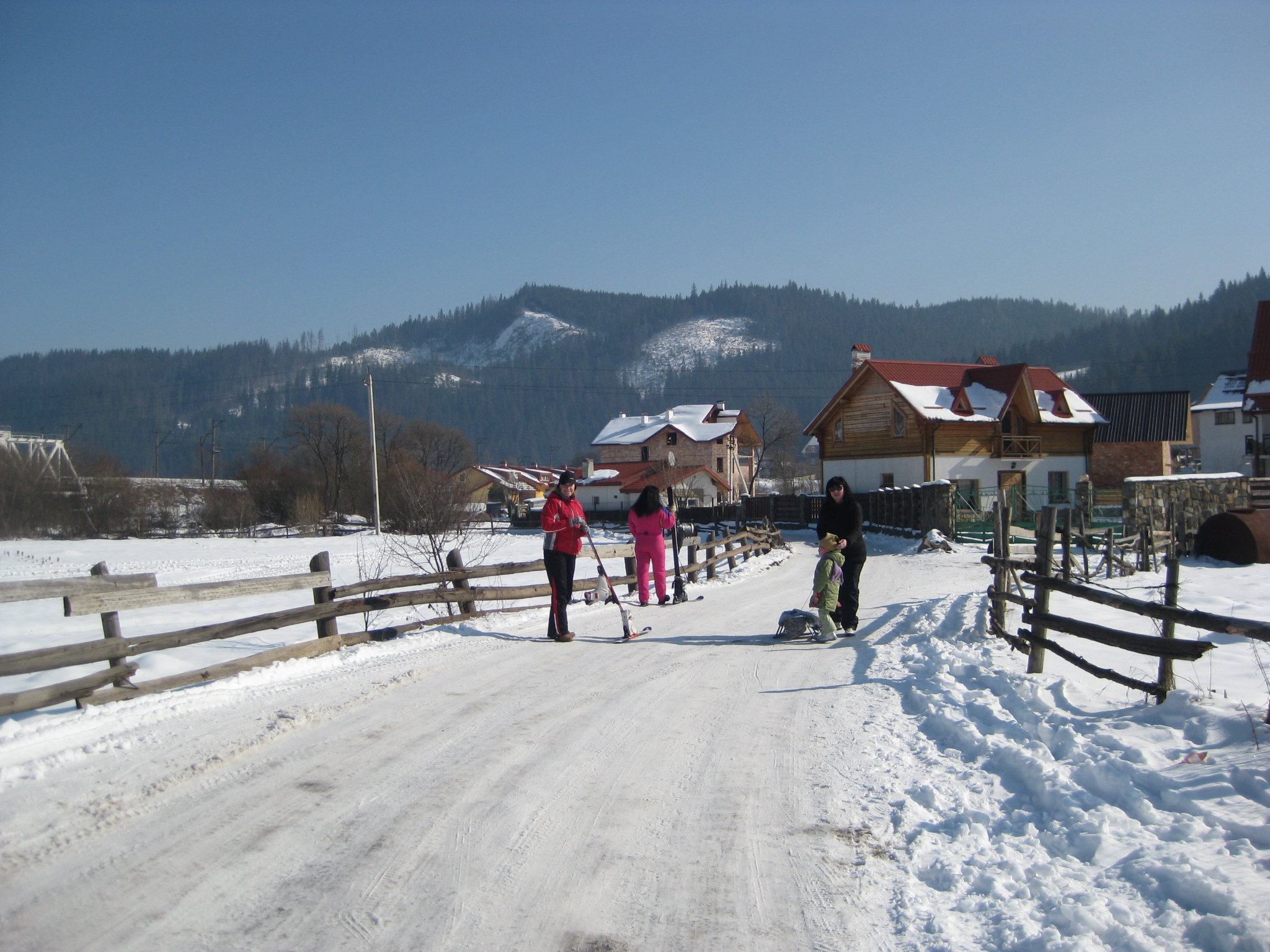 Slavs`ke